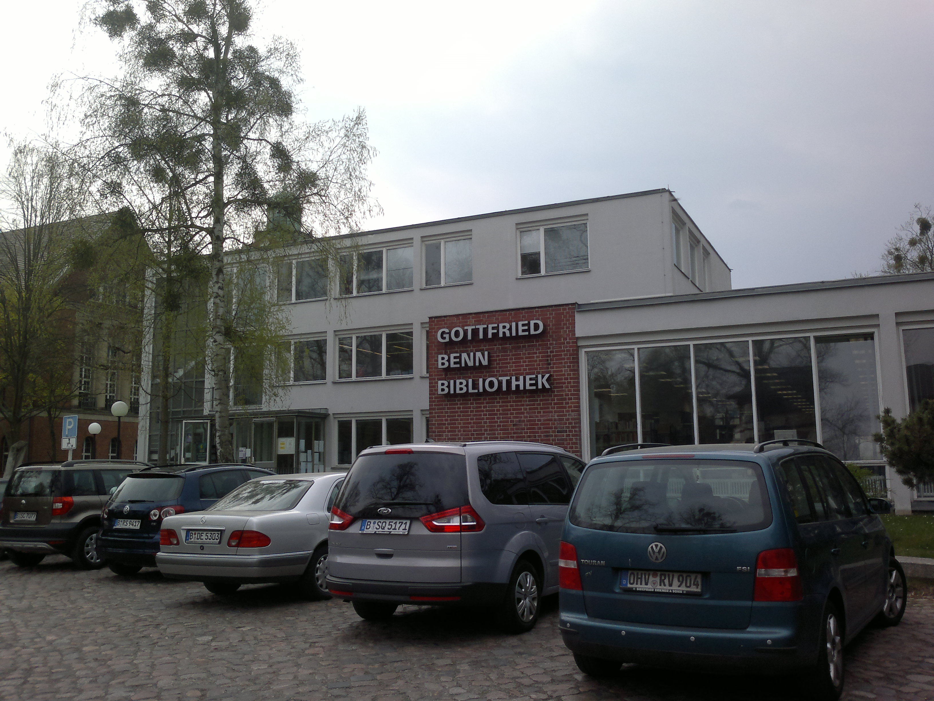 Building of Gottfried Benn Bibliothek in Berlin